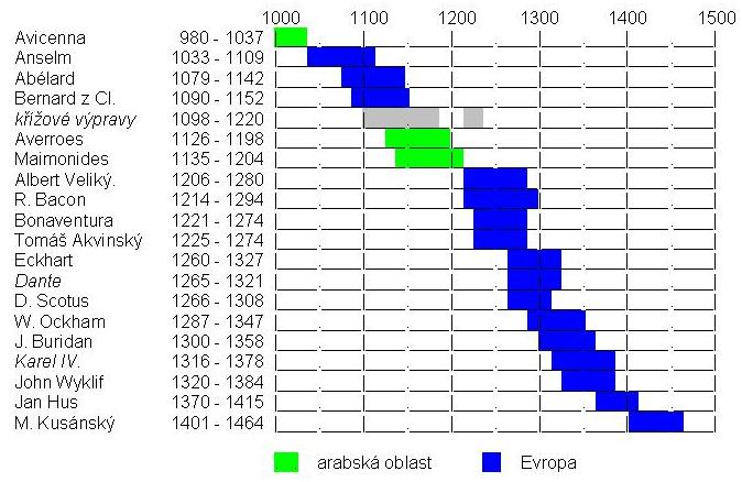 Chronology of Medieval philosophy.)